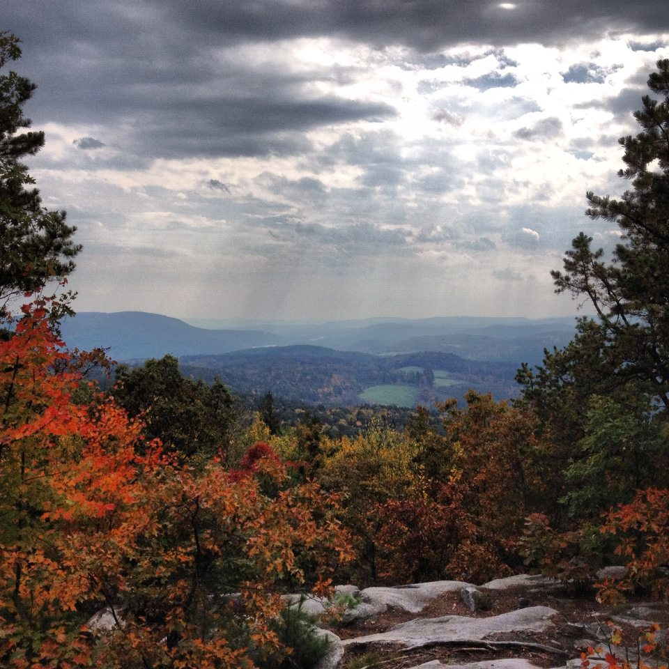 Looking east from the ridge of Kittatinny Mountain in the Delaware Water Gap National Recreation Area, Walpack Township, Sussex County, New Jersey. Approximately 1 mile north from the gate for Fairview Lake Road at "Fiddler's Elbow."